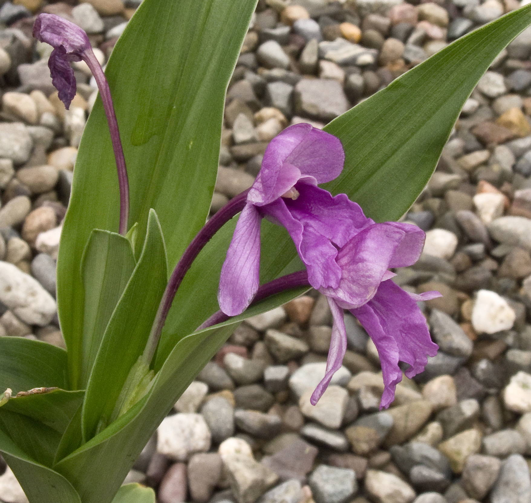 Roscoea alpina, growing in the collection of Roland Bream, UK National Collection Holder, Harnage, Shropshire